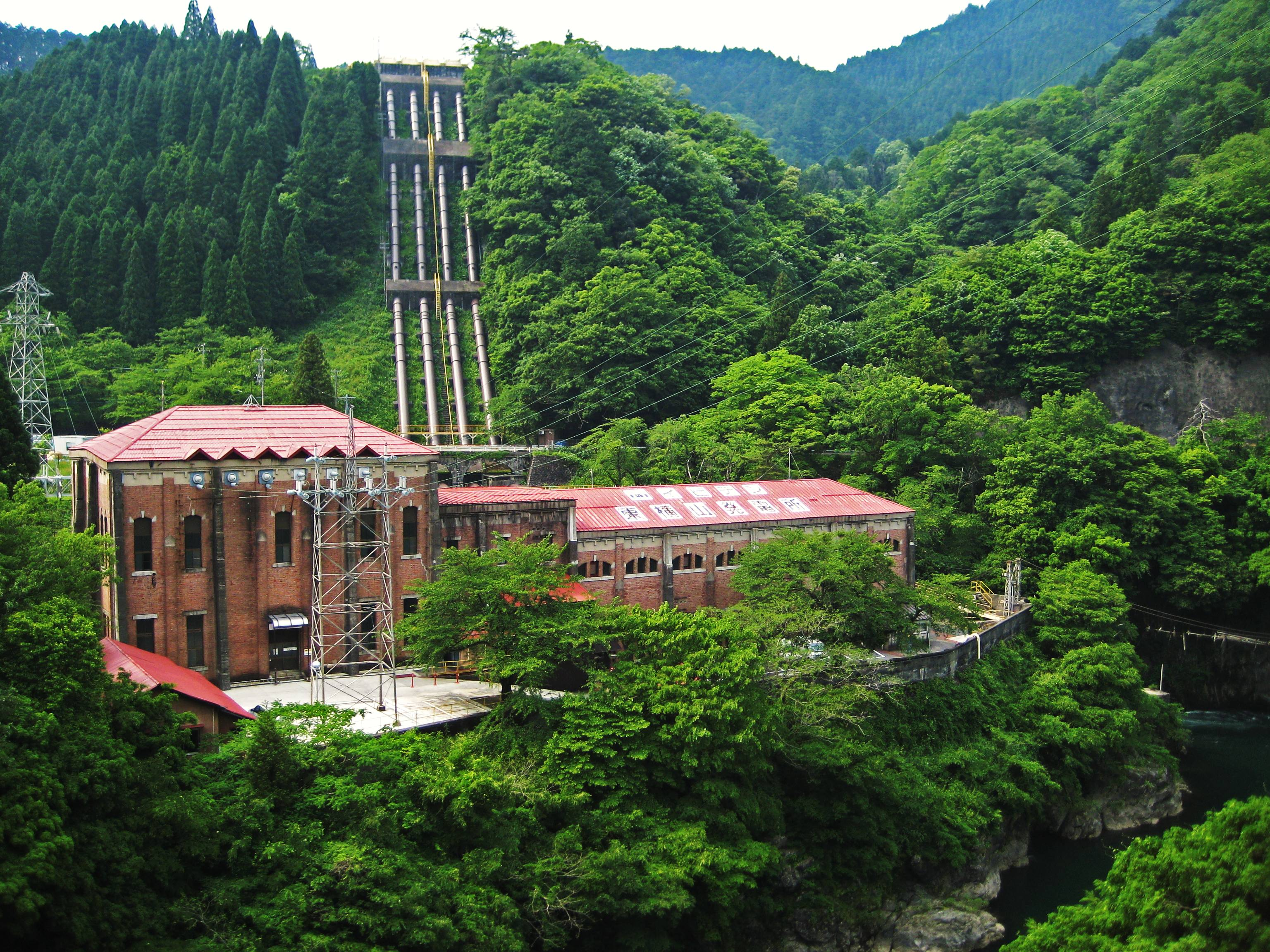 Higashiyokoyama power station.